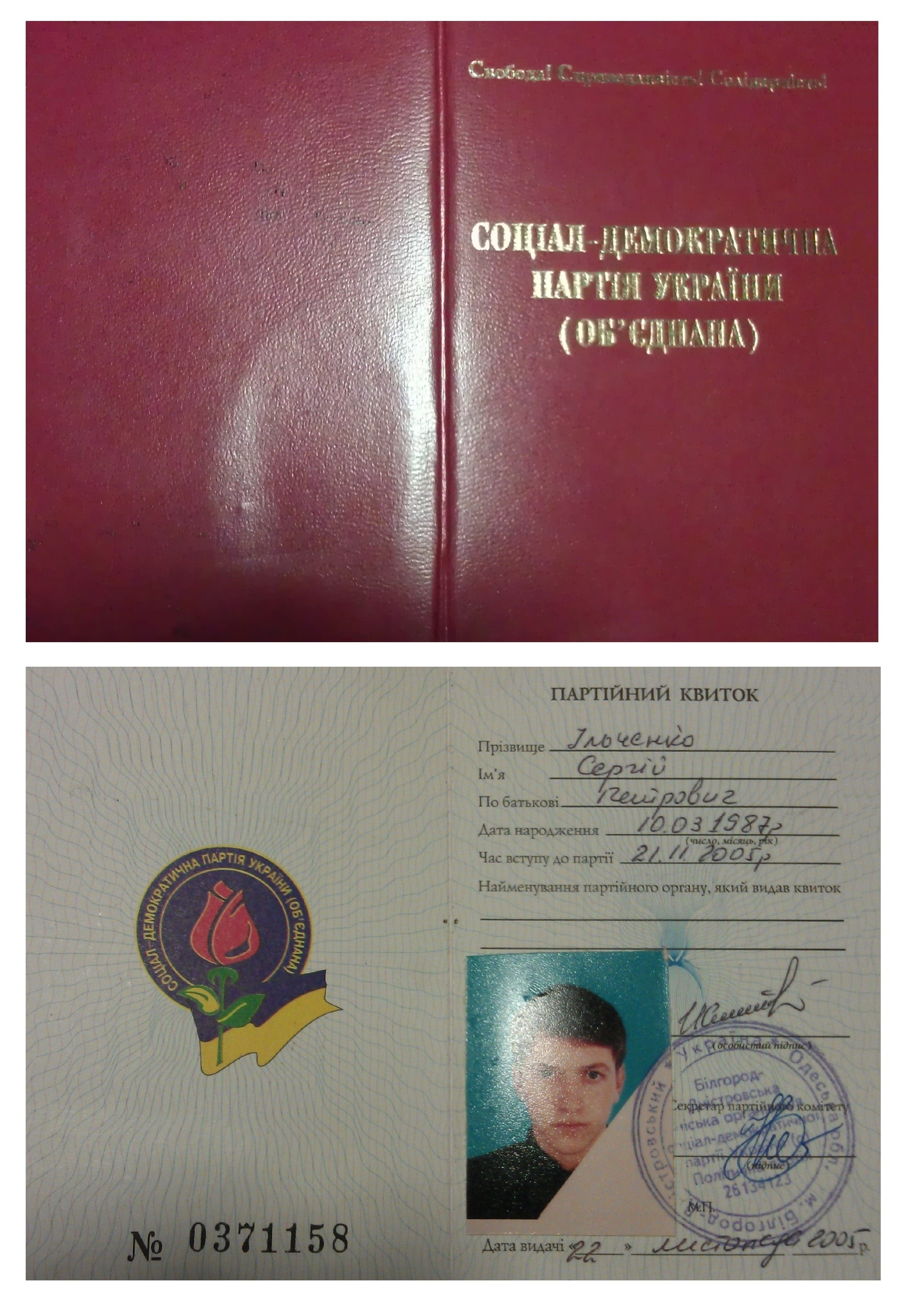 The membership card of the political: Social Democratic Party of Ukraine (united). Contains the Photo, name, number